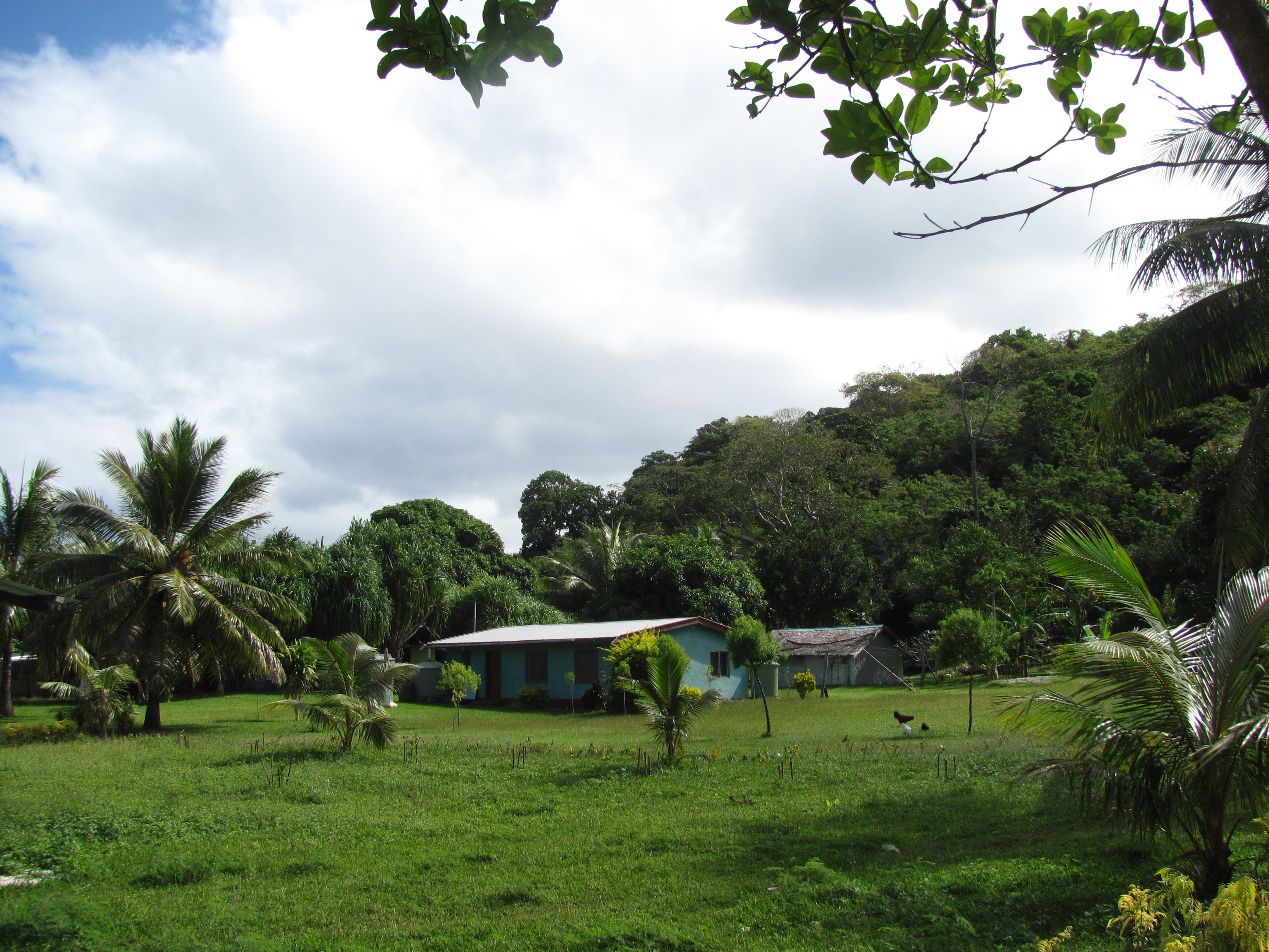 Village of Natapao, Lelepa Island, Vanuatu